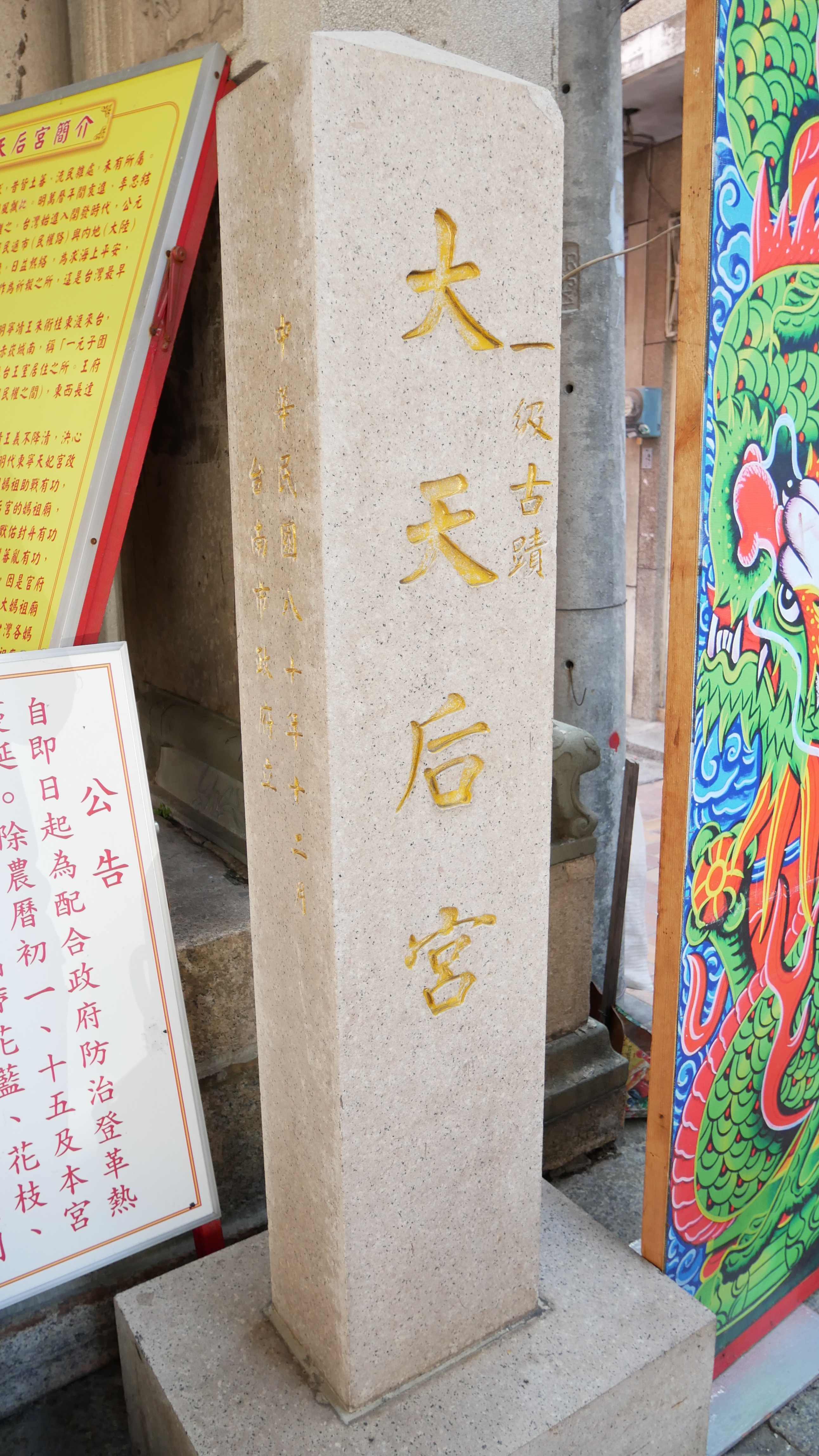 一級古蹟大天后宮碑（中華民國八十年十二月台南市政府立），臺南市中西區赤崁里